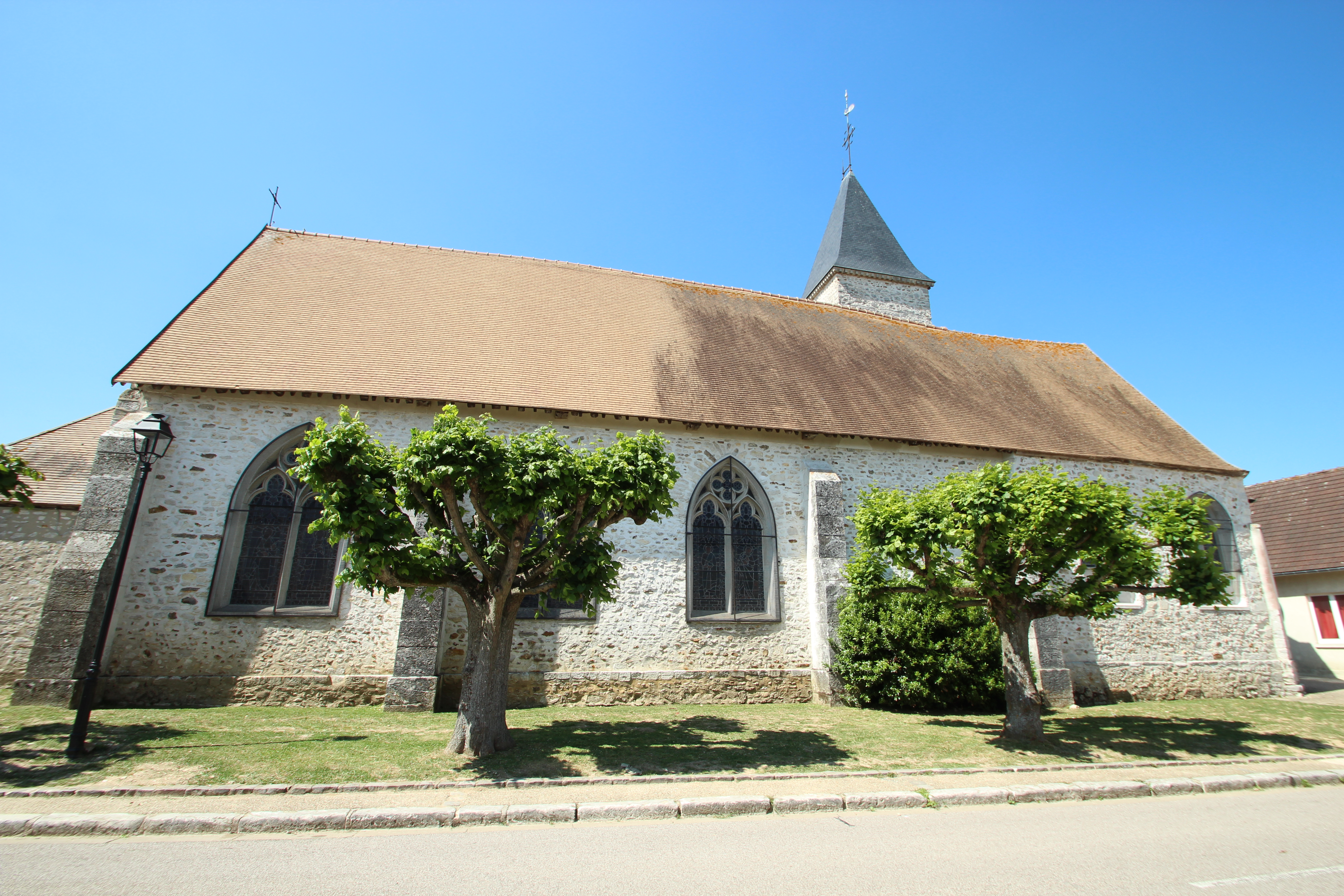 Saint-Léger church of Lommoye, France. Object location48° 59′ 37.75″ N, 1° 30′ 53.42″ E This picture as been uploaded as part of L'Été des régions 2016.